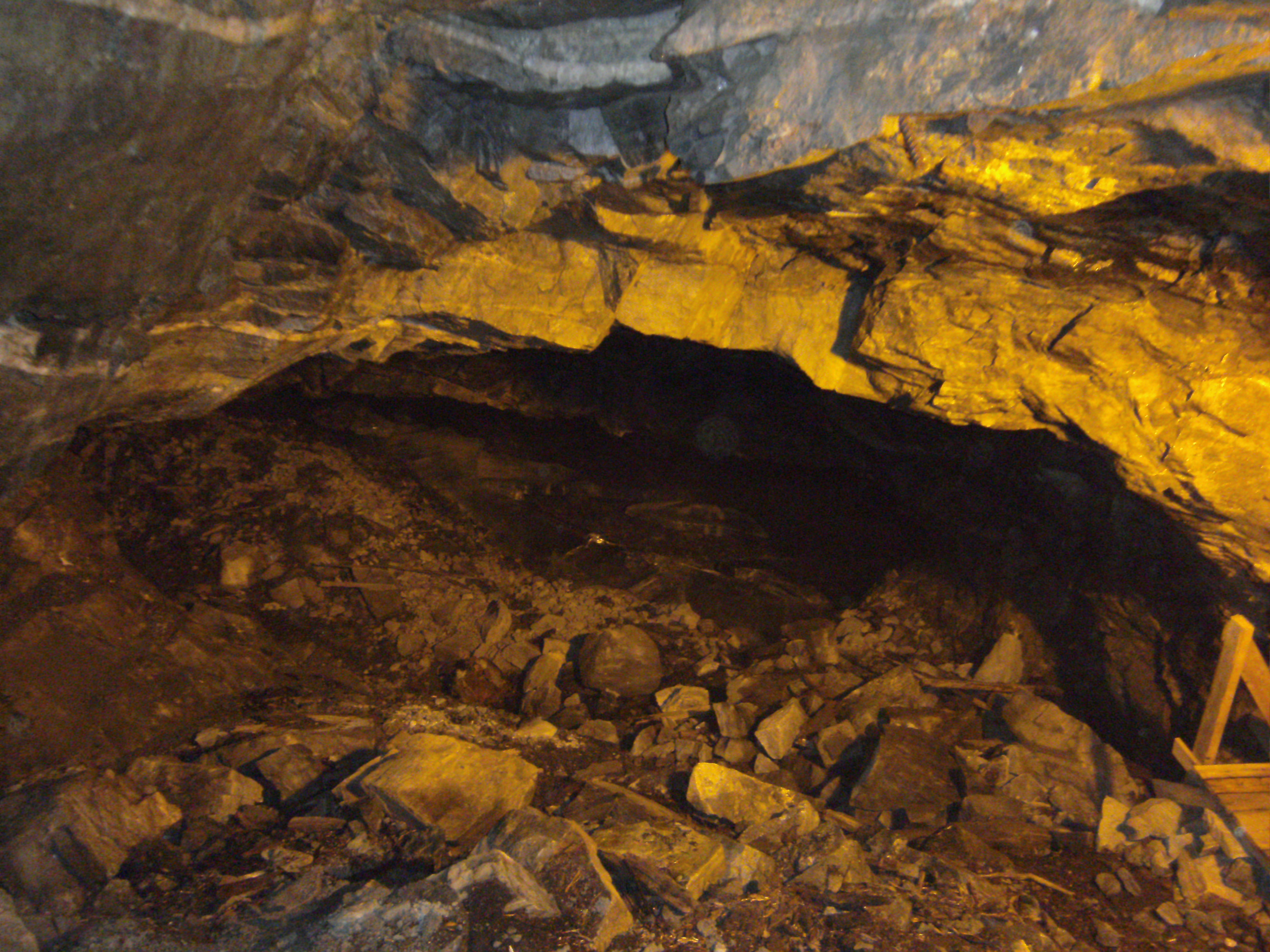 Picture of the left shaft directly after entering the Gustafs-shaft / Gustafs-mine at Fröå Gruva.